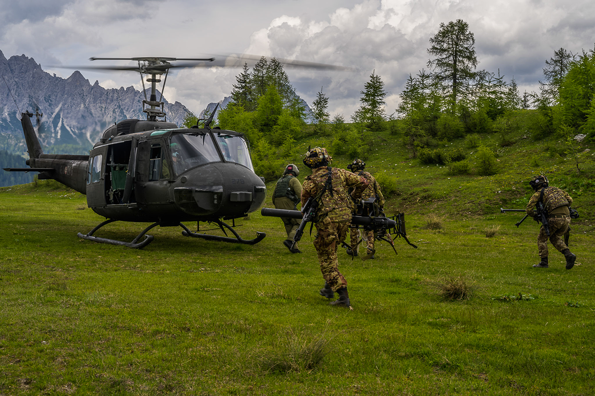 Italian Army 7th Alpini Regiment soldiers and their 81mm mortar are airlifted of a mountain during an exercise on Monte Bivera